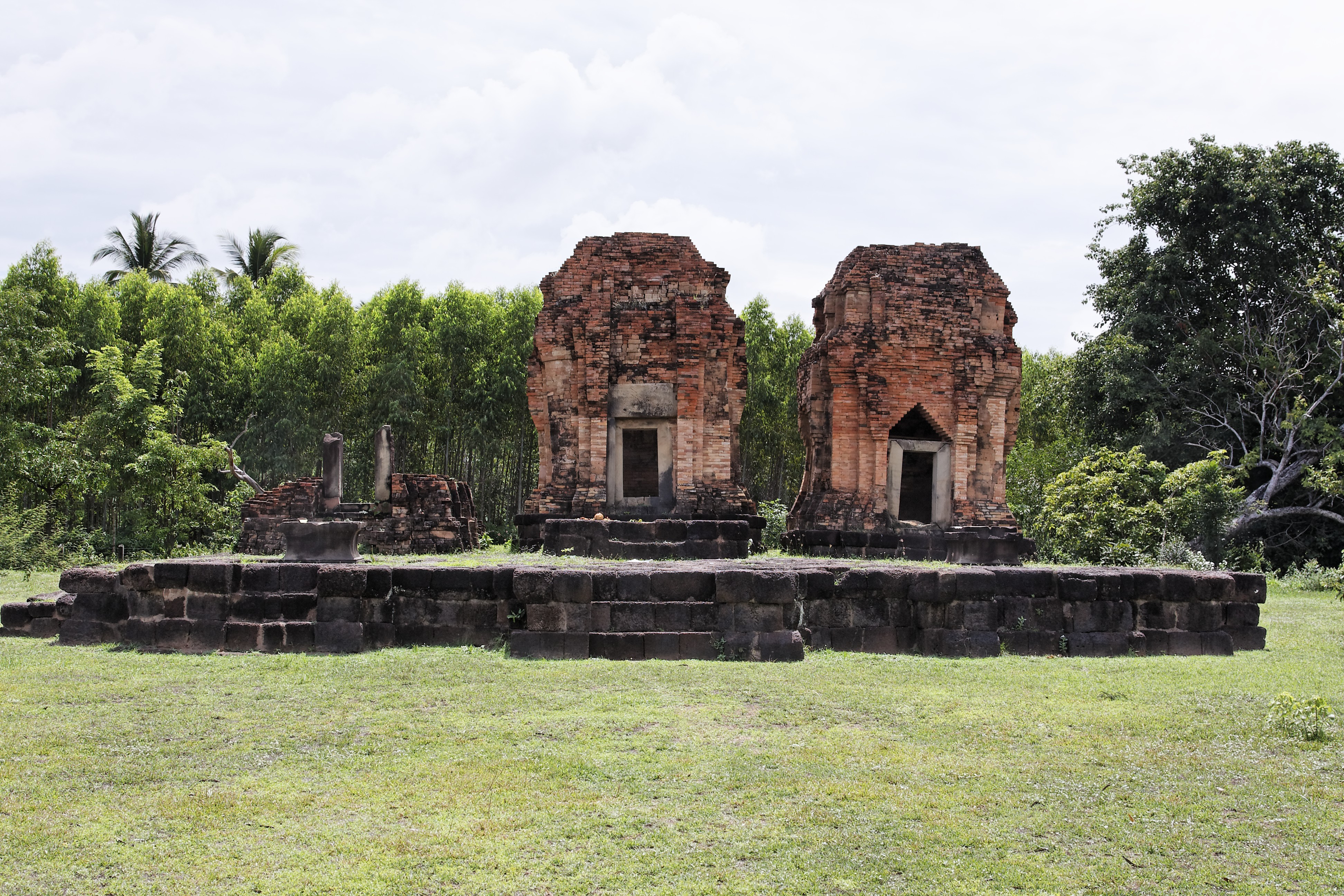 Prasat Ban Phlai, Thailand